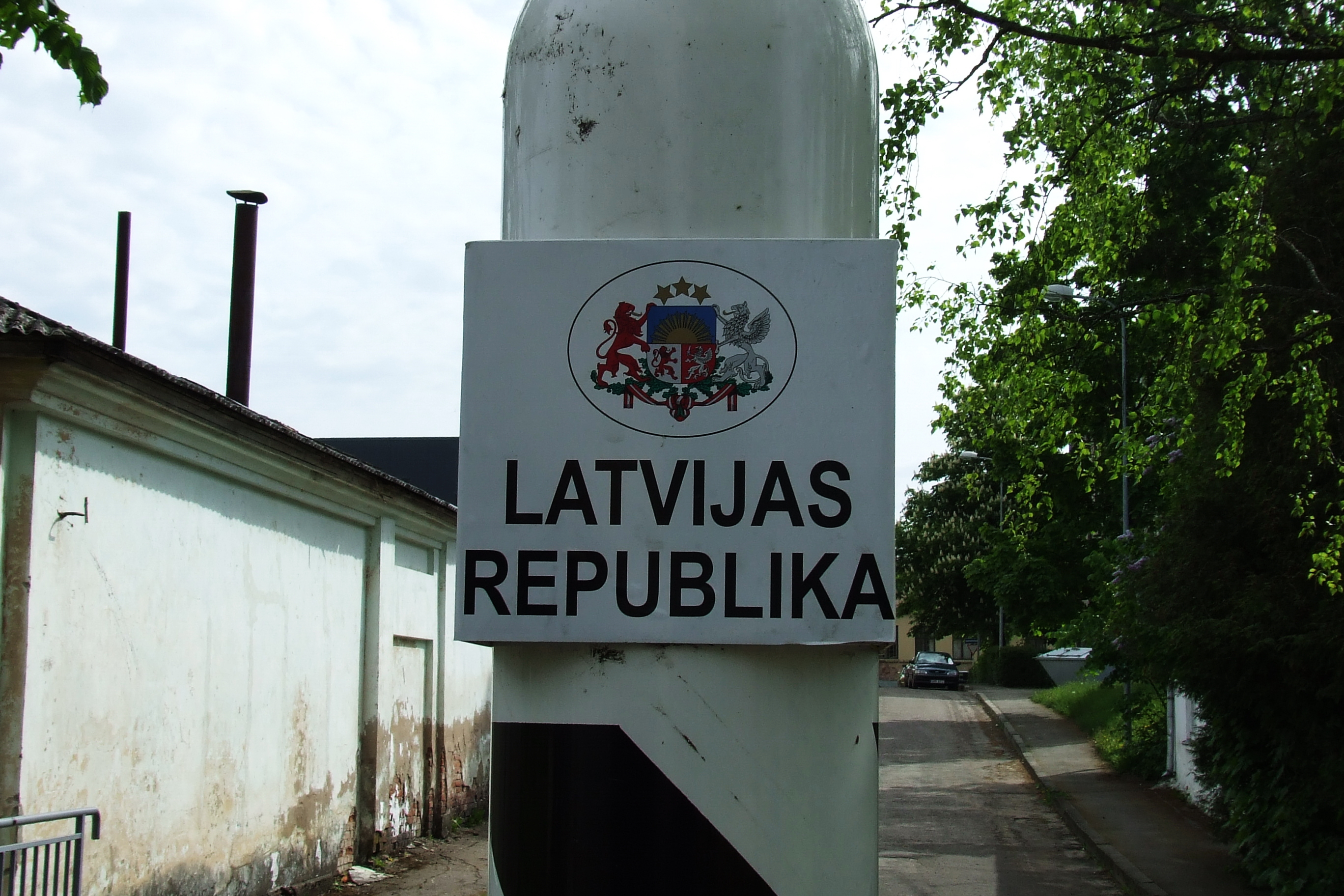 Borden crossing on Raiņa iela (Valka) and Sõpruse tänav (Valga)